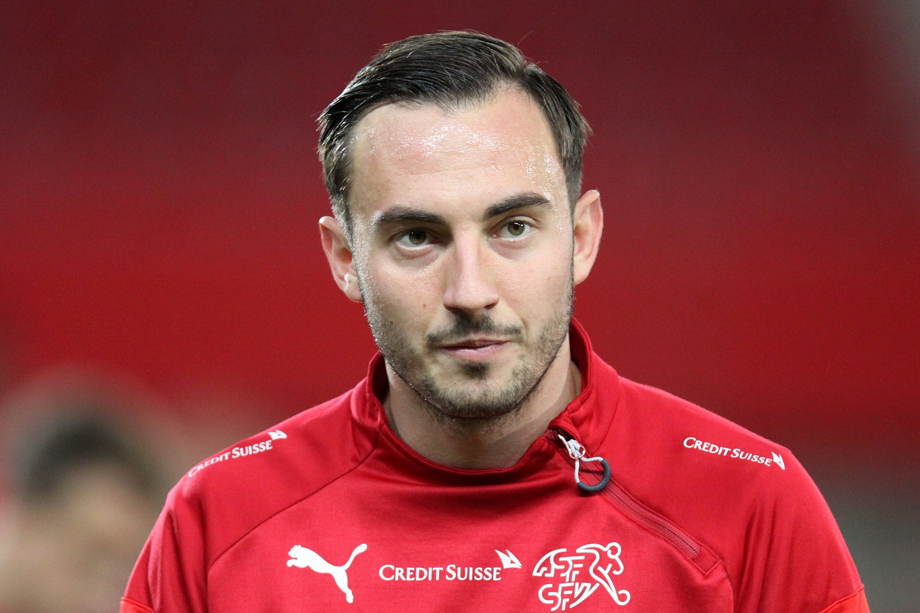 Friendly match – Austria (red shirts) vs. Switzerland (white shirts) 1-2 (1-2) – 2015-11-17 in Vienna, Ernst-Happel-Stadion – The photo shows Josip Drmić (Switzerland).